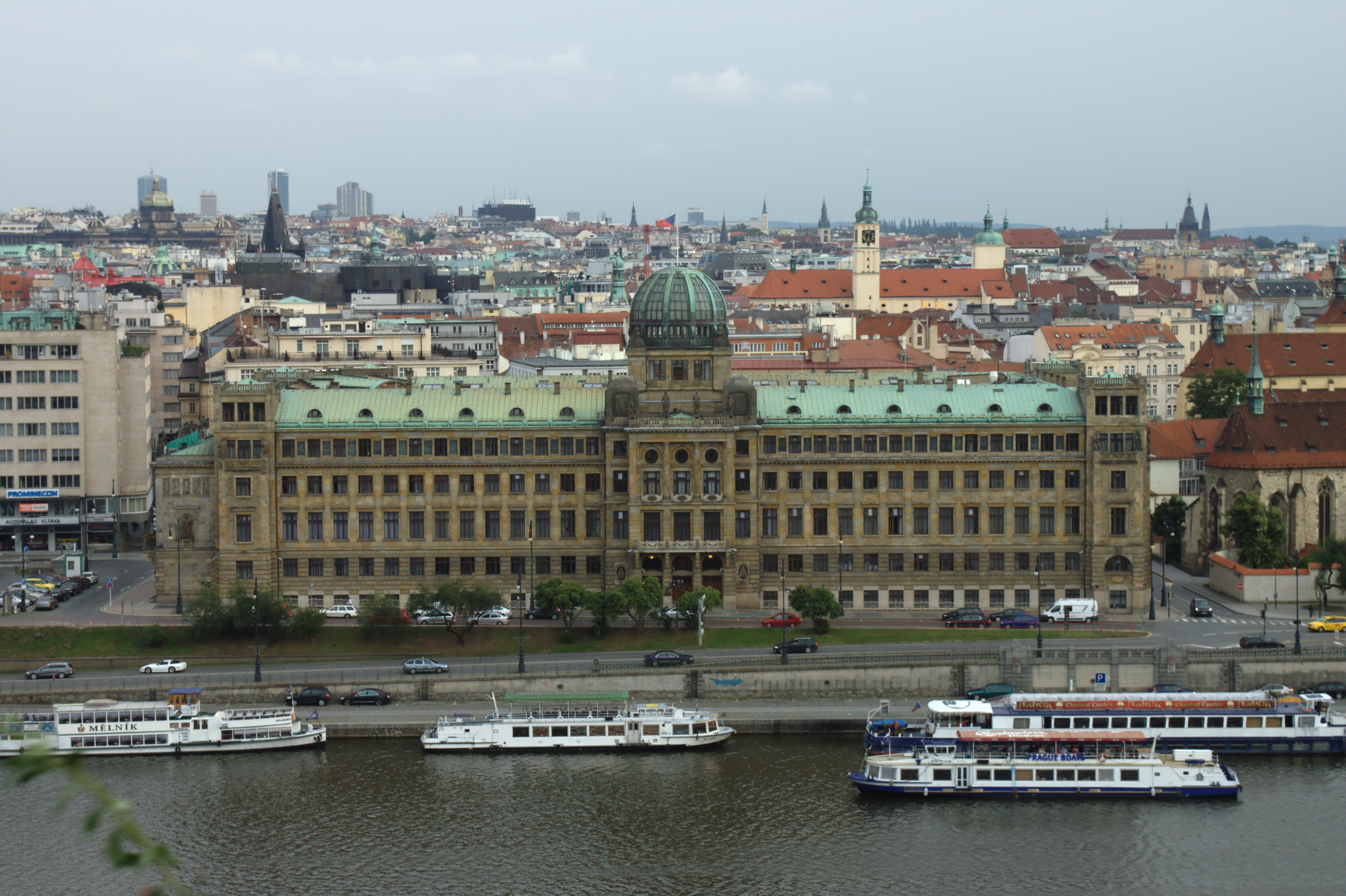 Ministry of Industry and trade seen from Letná park, Prague, CZ